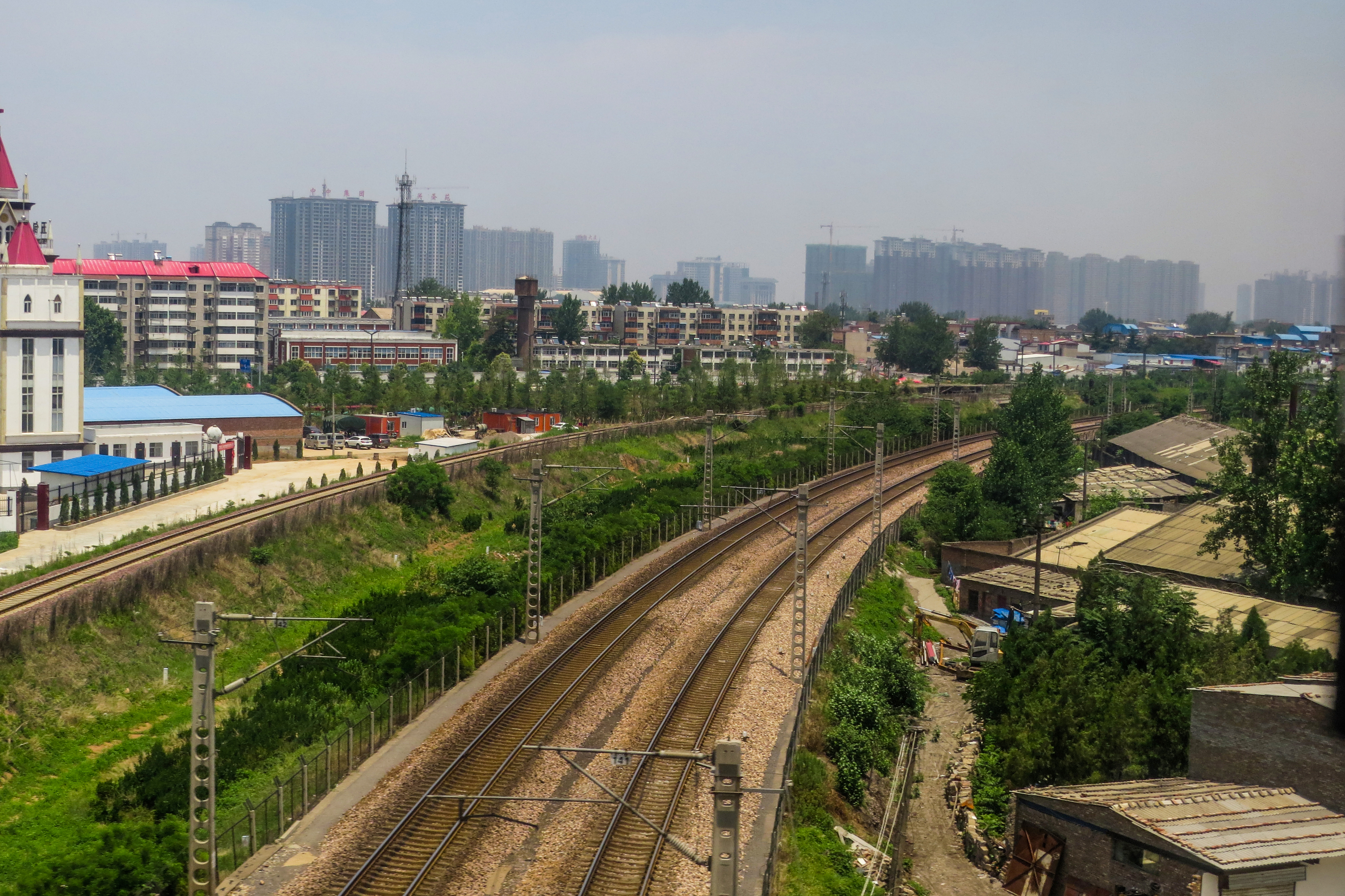 The single track on the left is Luoyang-Yiyang Railway (to Yiyang County, Luoyang), and the double track is Jiaozuo-Liuzhou Railway, whose only single track section remains between Shimenxianbei and Liuzhou.